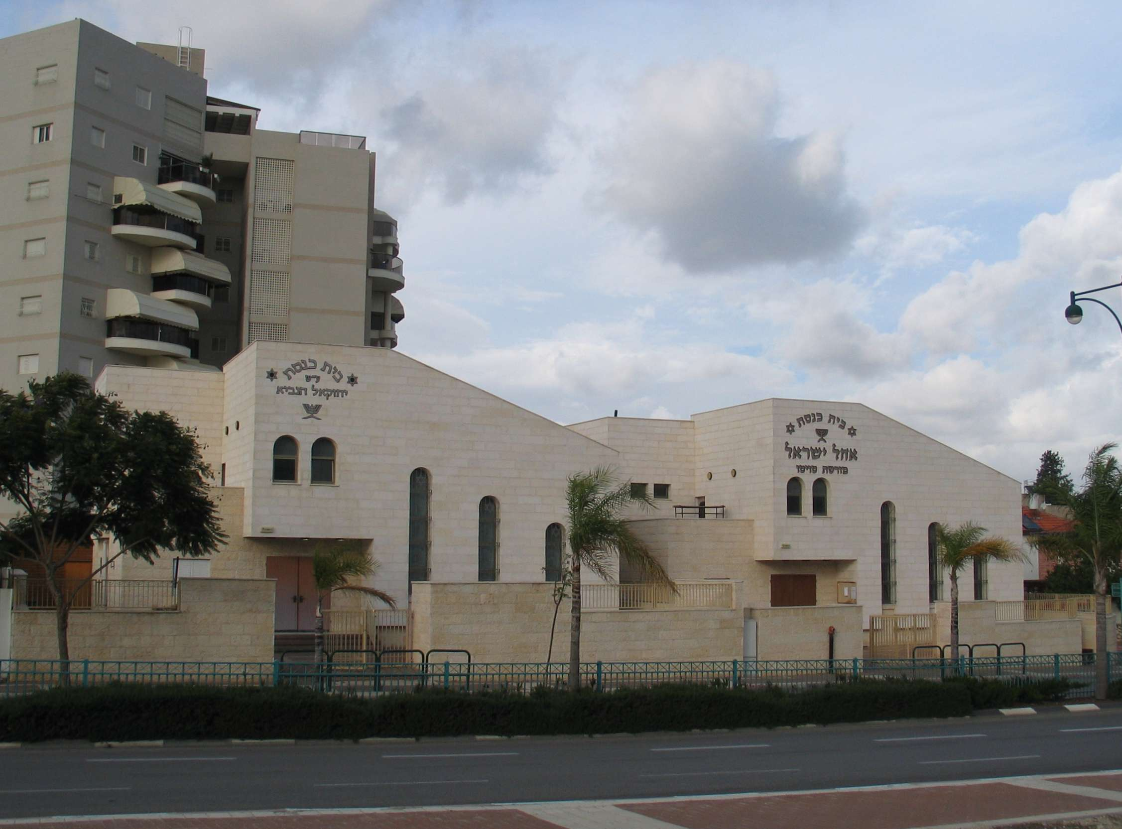 Yavne.